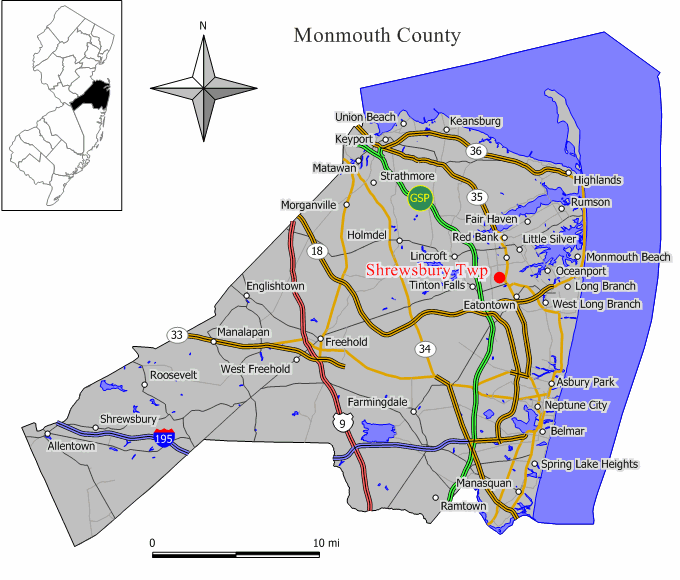 Locator map of Shrewsbury Township in Monmouth County, New Jersey